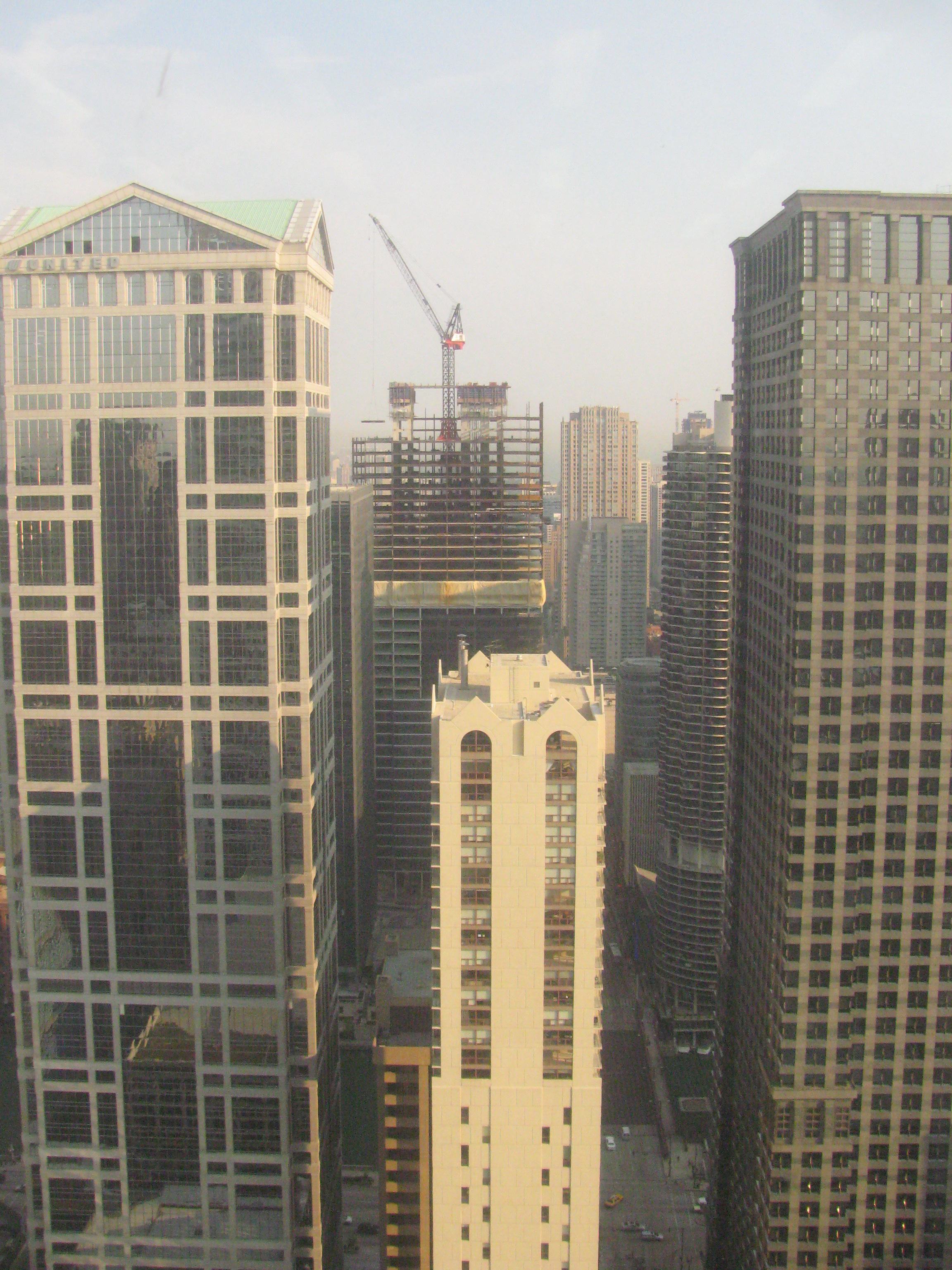 353 North Clark from Daley Center